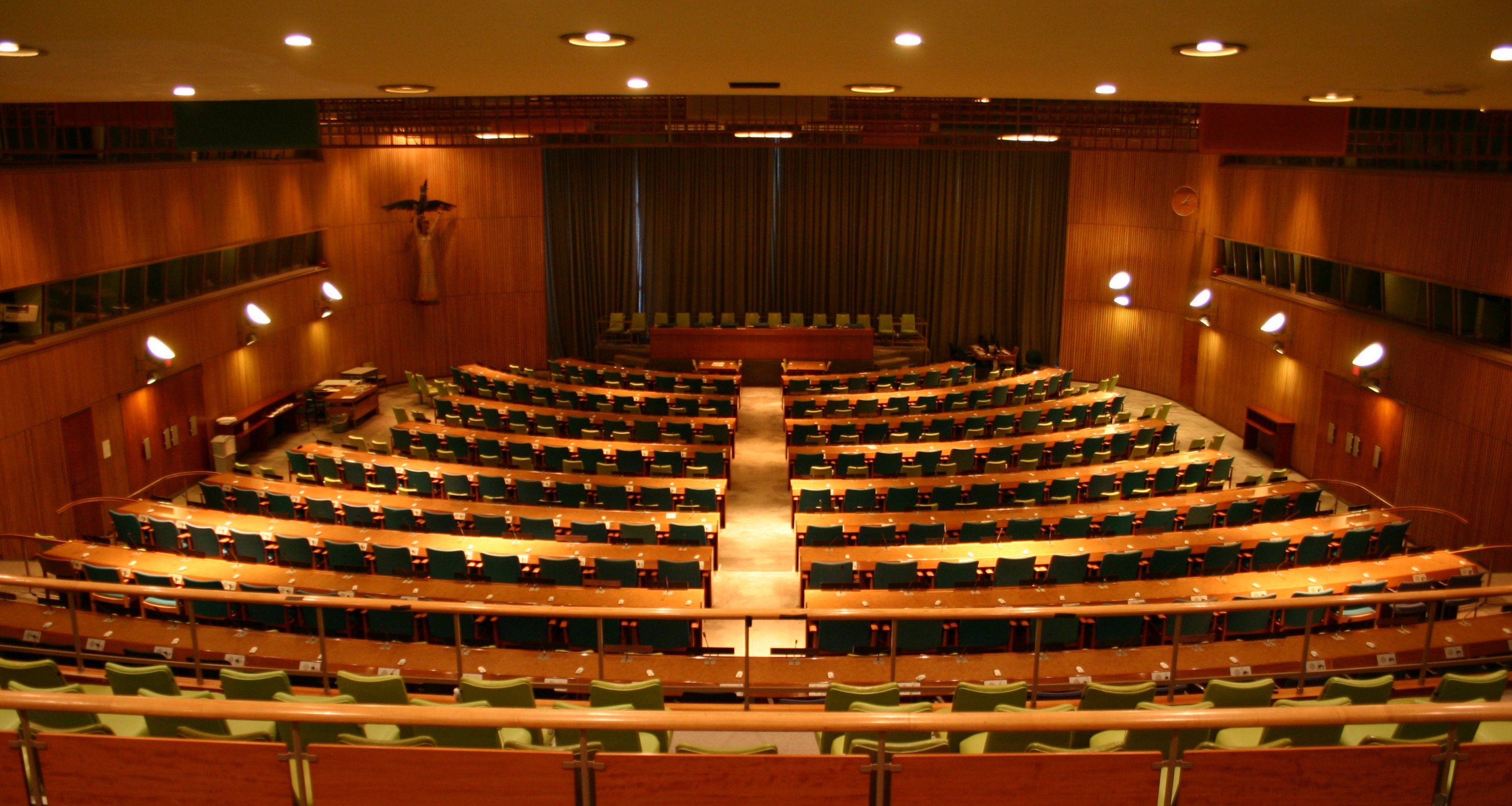 Room of the UN Trusteeship Council. UN headquarters, New York City.